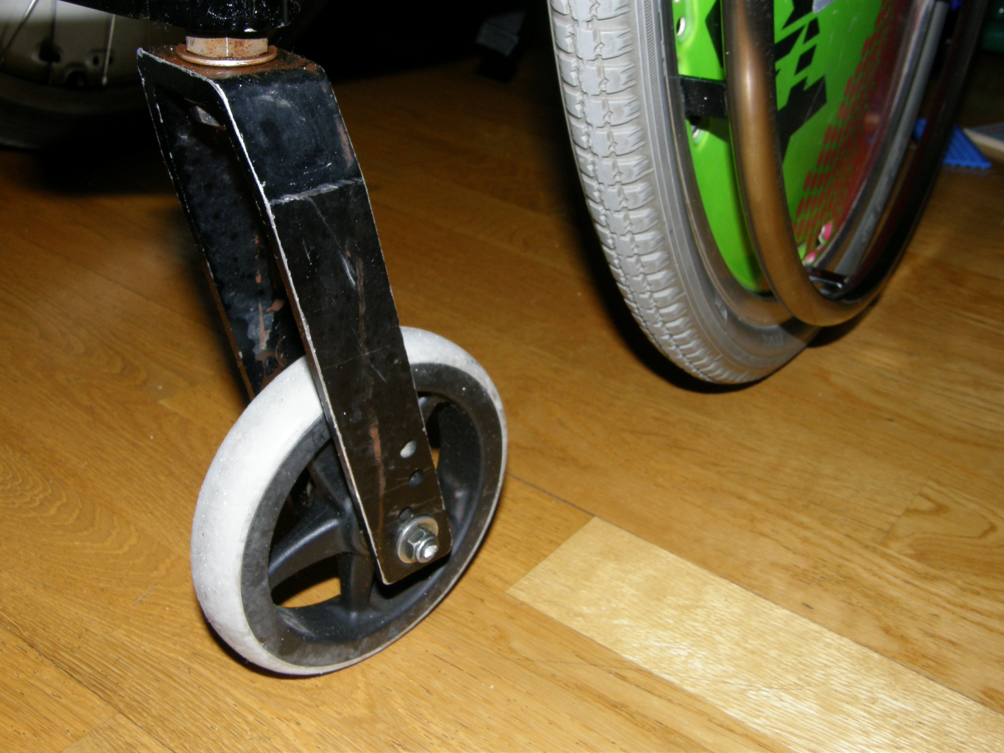 A closeup of a wheelchair caster (side2)